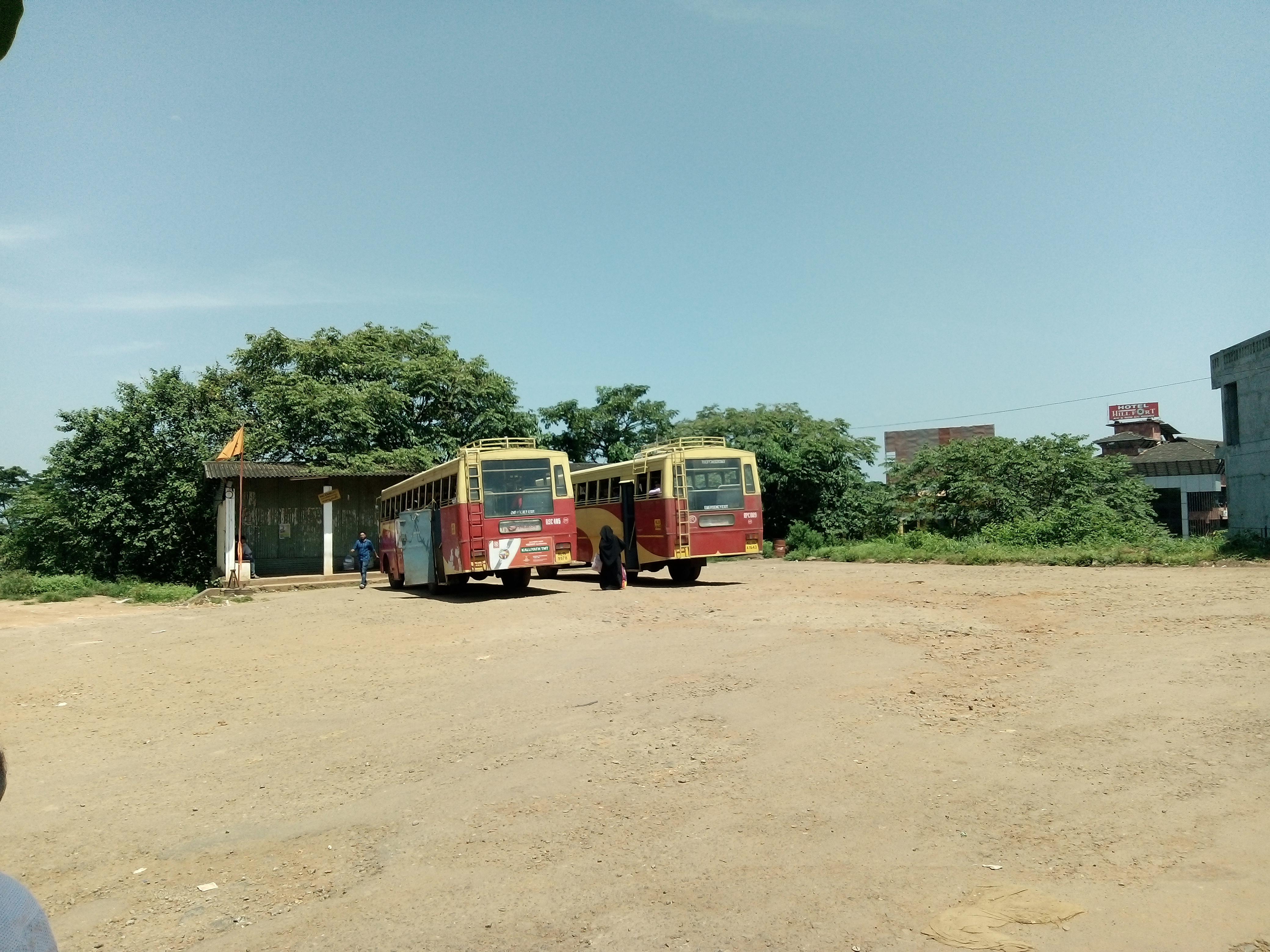 malappuram KURTC Bus Stand and depot photo dated on sep-4-2018